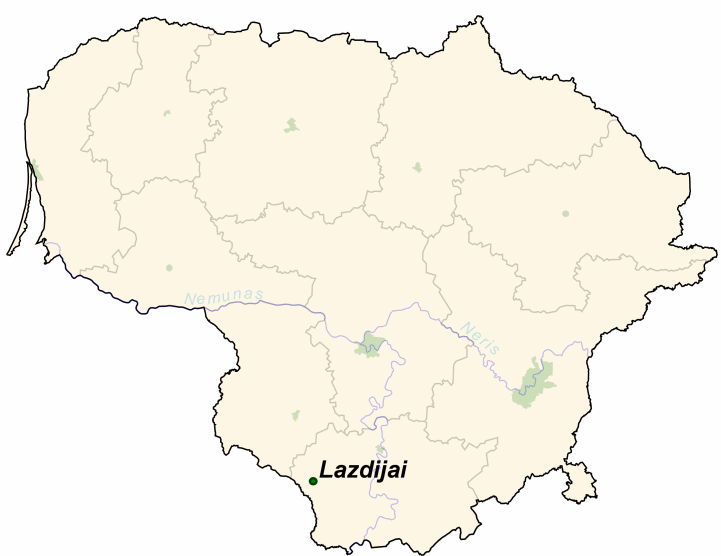 Lazdijai on the map of Lithuania